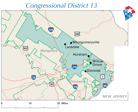 Cropped from